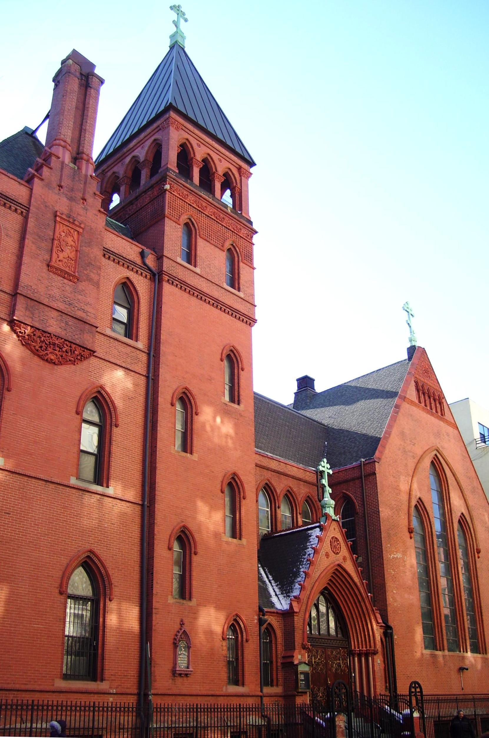 St. Nicholas of Myra Church at 288 East 10th Street and Avenue A in the East Village neighborhood of Manhattan, New York City